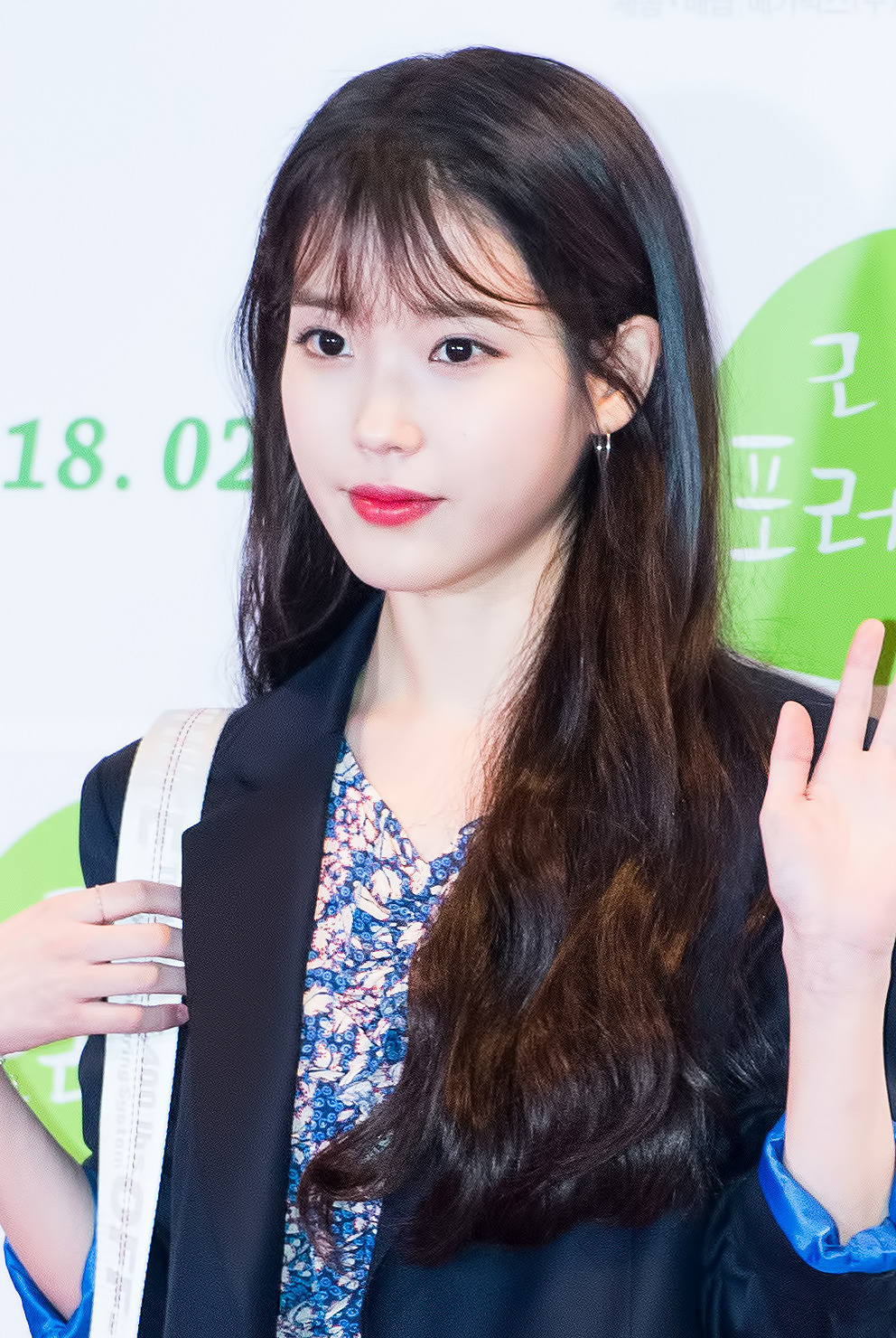 IU at Little Forest VIP premiere on February 26, 2018.